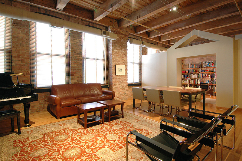 The interior of a loft condominium at 400 South Green Street in Chicago, Illinois, United States.